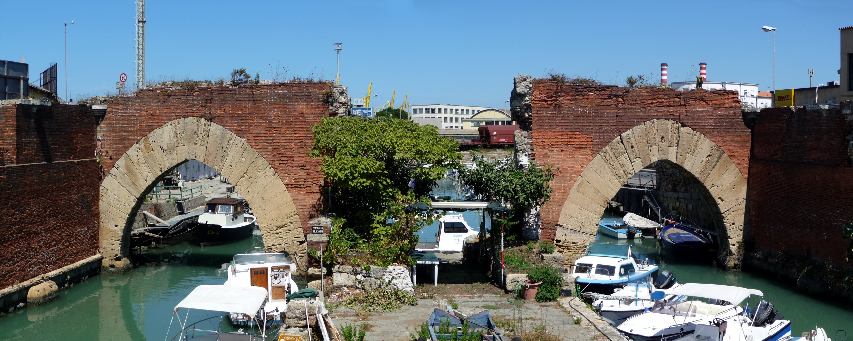 Rests of the Dogana d'acqua, Livorno, Italy